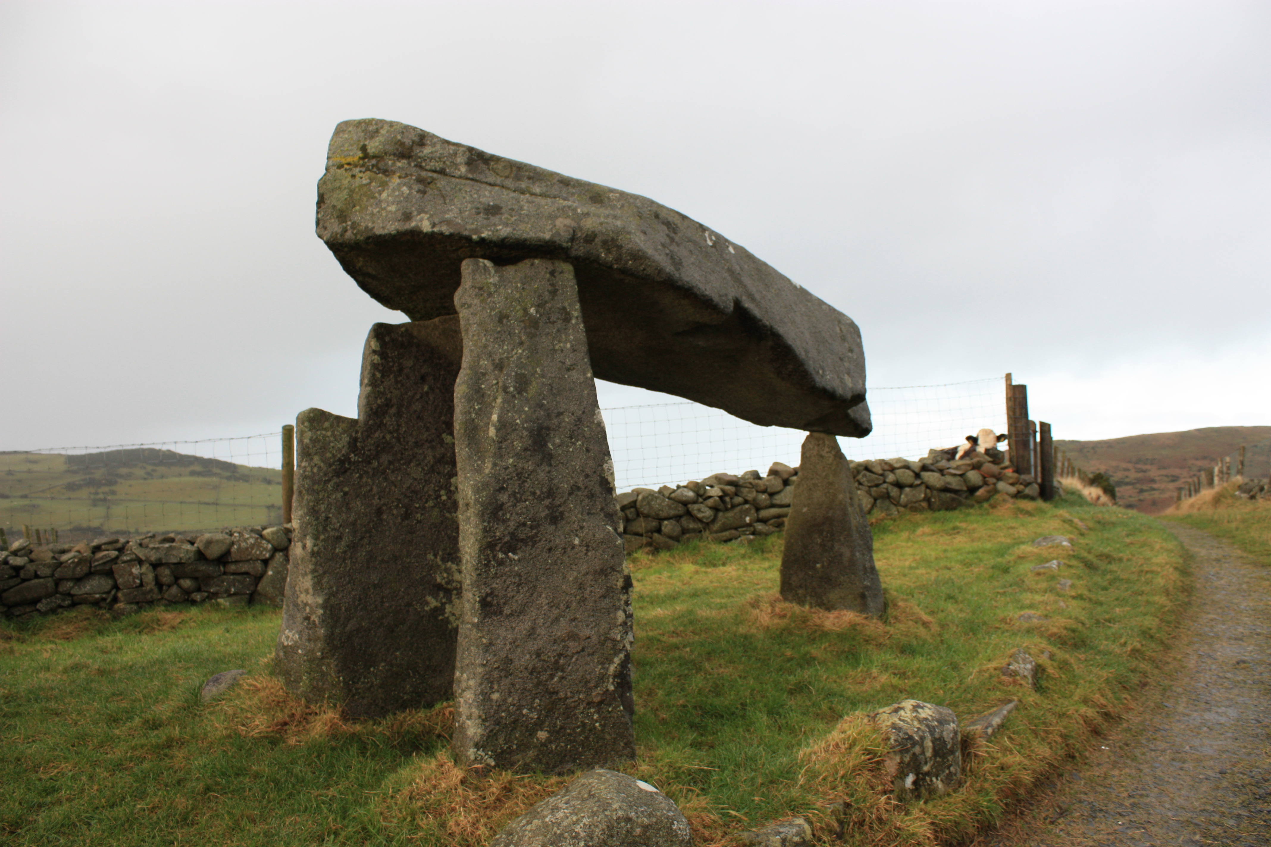 Legananny Dolmen, County Down, Northern Ireland, December 2009